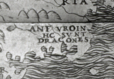 The Hunt–Lenox Globe, a copper globe created around 1510, and held by the Rare Book Division of New York Public Library. View of the side depicting Asia, cropped to show "Hic Sunt Dracones" text.